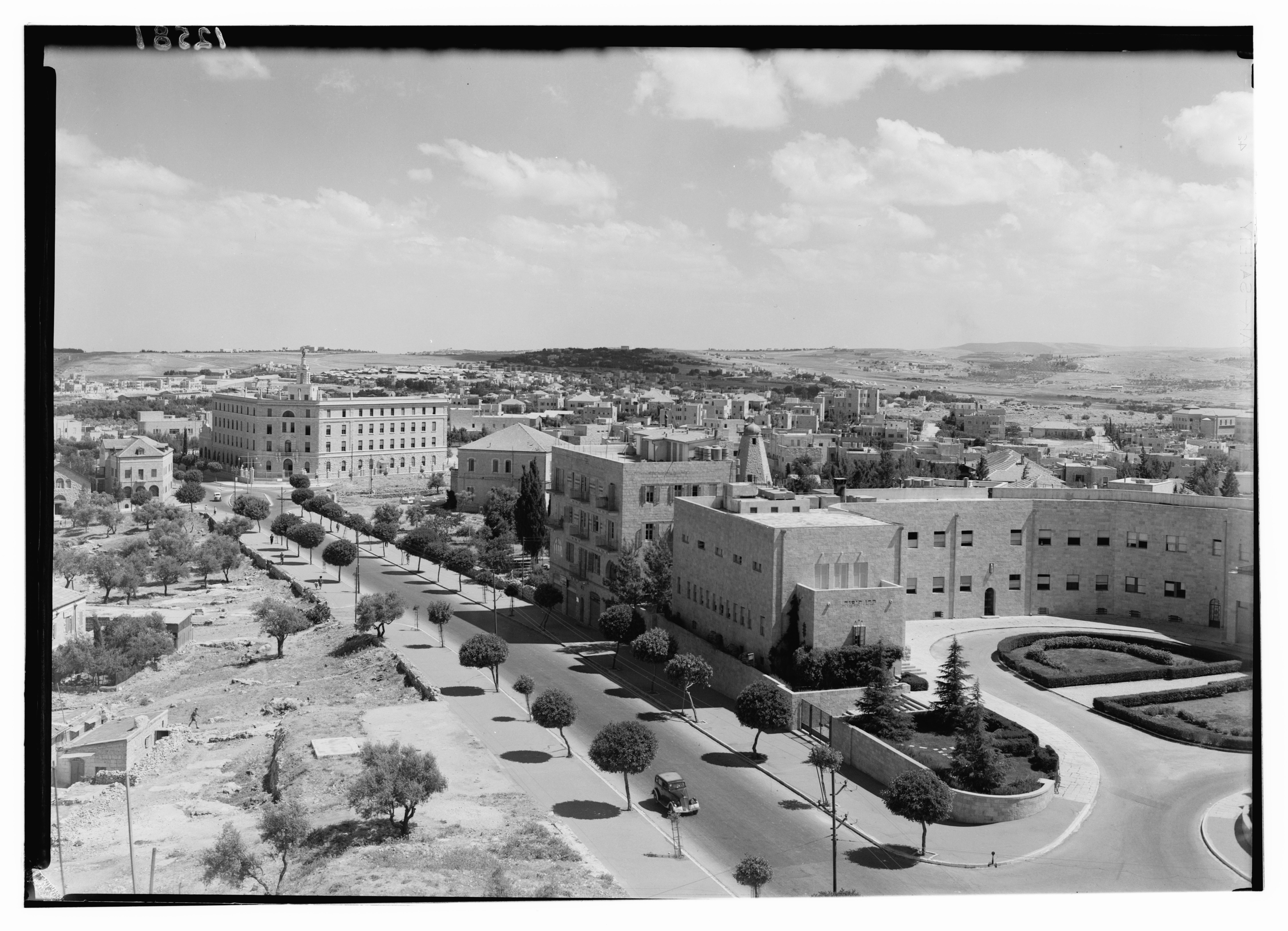 Title: Jerusalem, across King George Ave. Abstract/medium: G. Eric and Edith Matson Photograph Collection Physical description: 1 negative